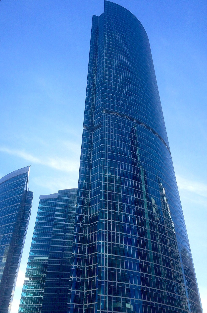 Naberezhnaya Tower 2014